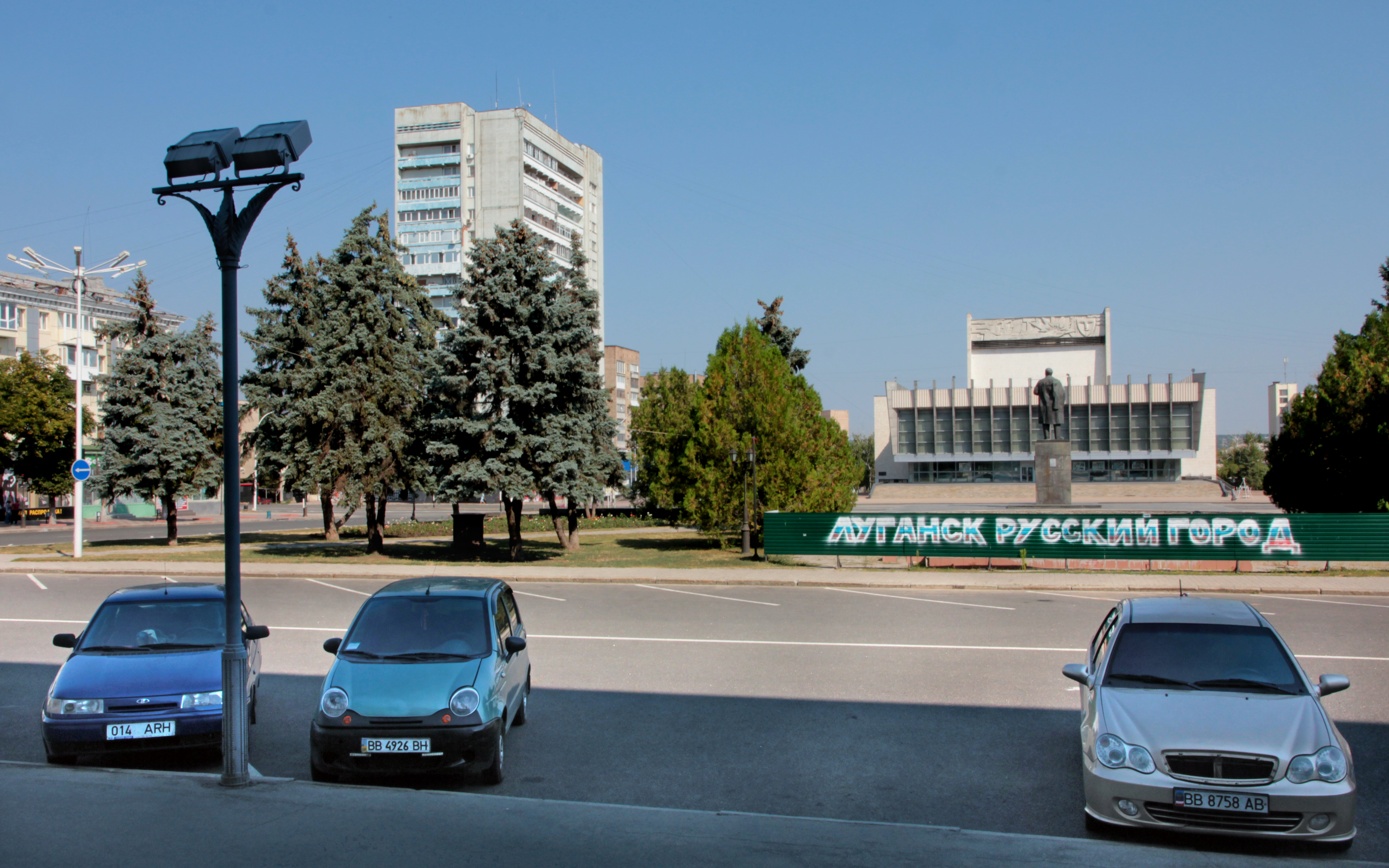 Lugansk drama theatre 09.08. 2015